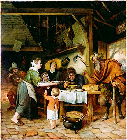 Jan Steen's painting of "The Satyr and the Peasant Family", c.1660, in the J.Paul Getty Museum